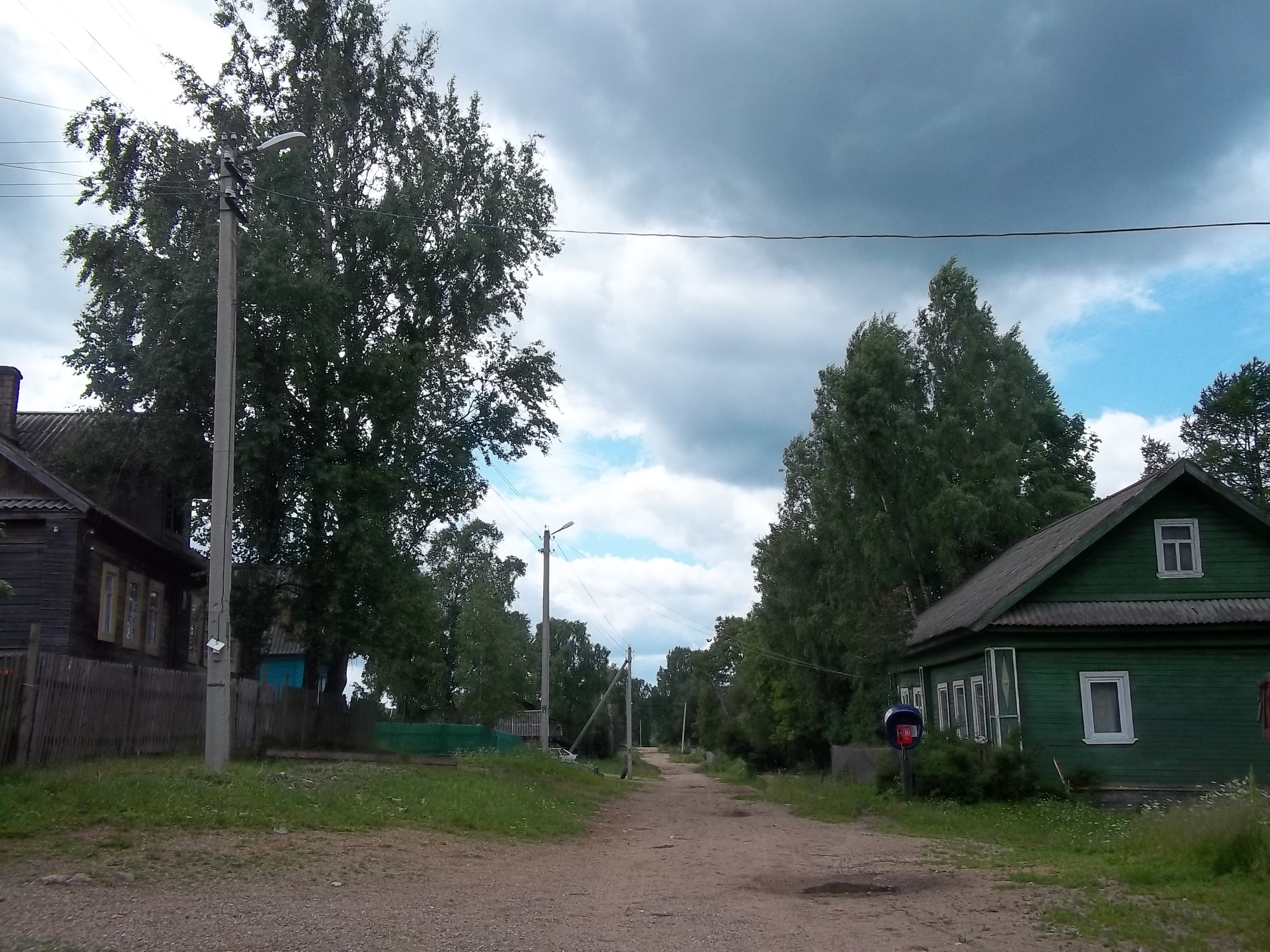 The street of the Ramenie vallage near Borzyni settlement